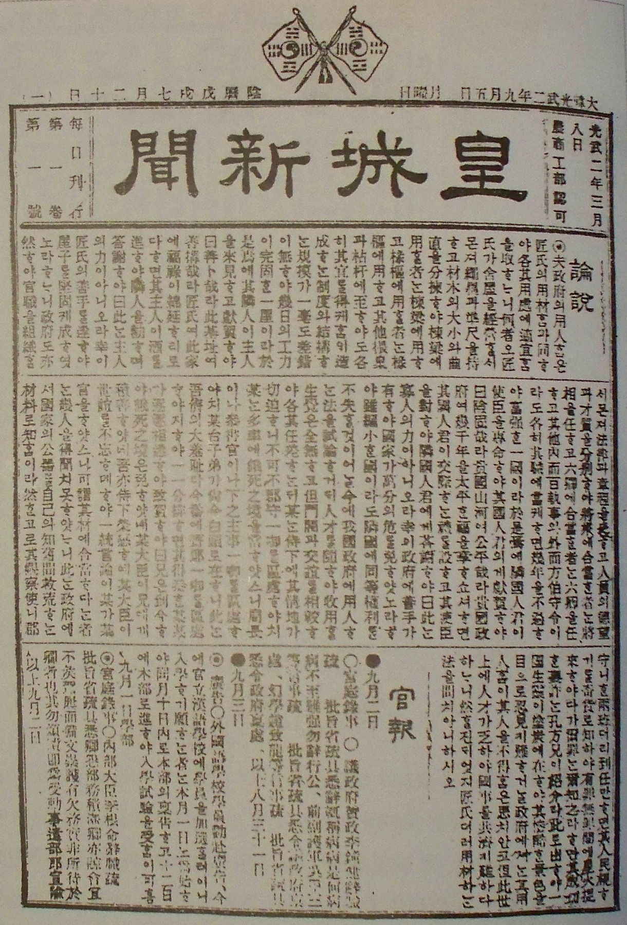 Inaugural edition of the Hwangseong Sinmun (Capital Gazette), Seoul, Korea (1898)Unknown